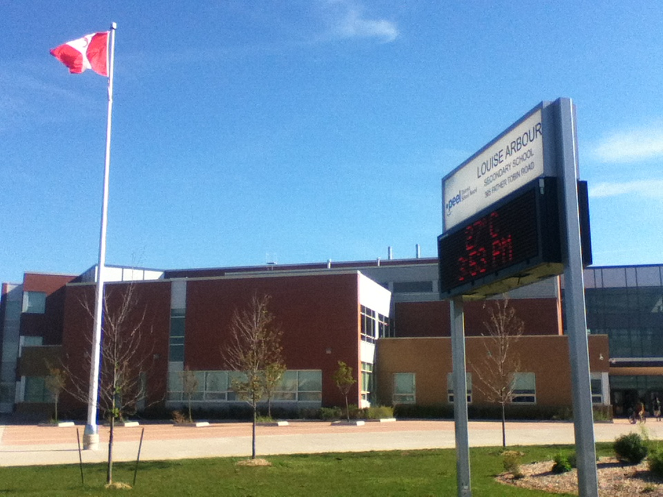 Louise Arbour Secondary School main entrance